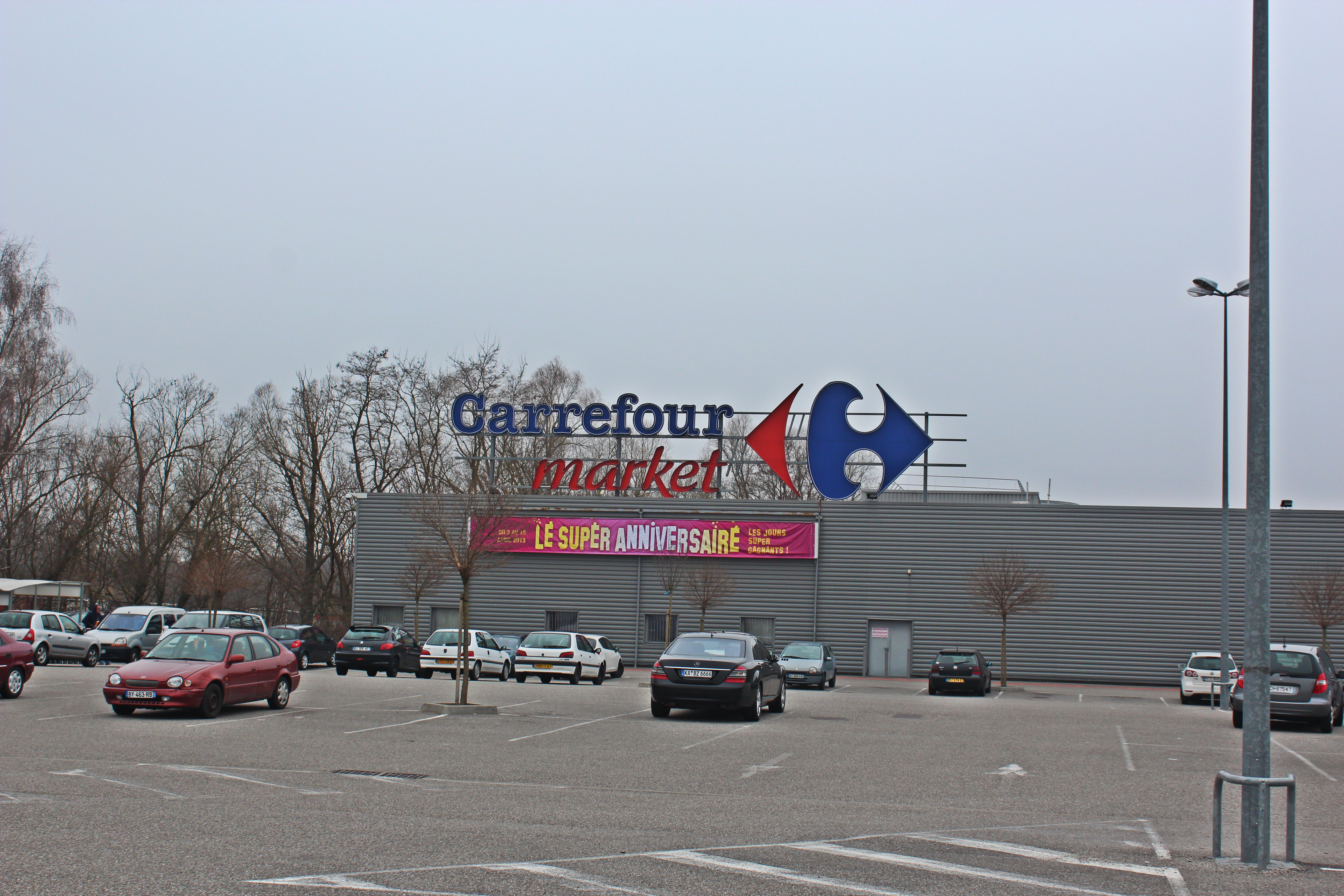 Carrefour in Scheibenhard